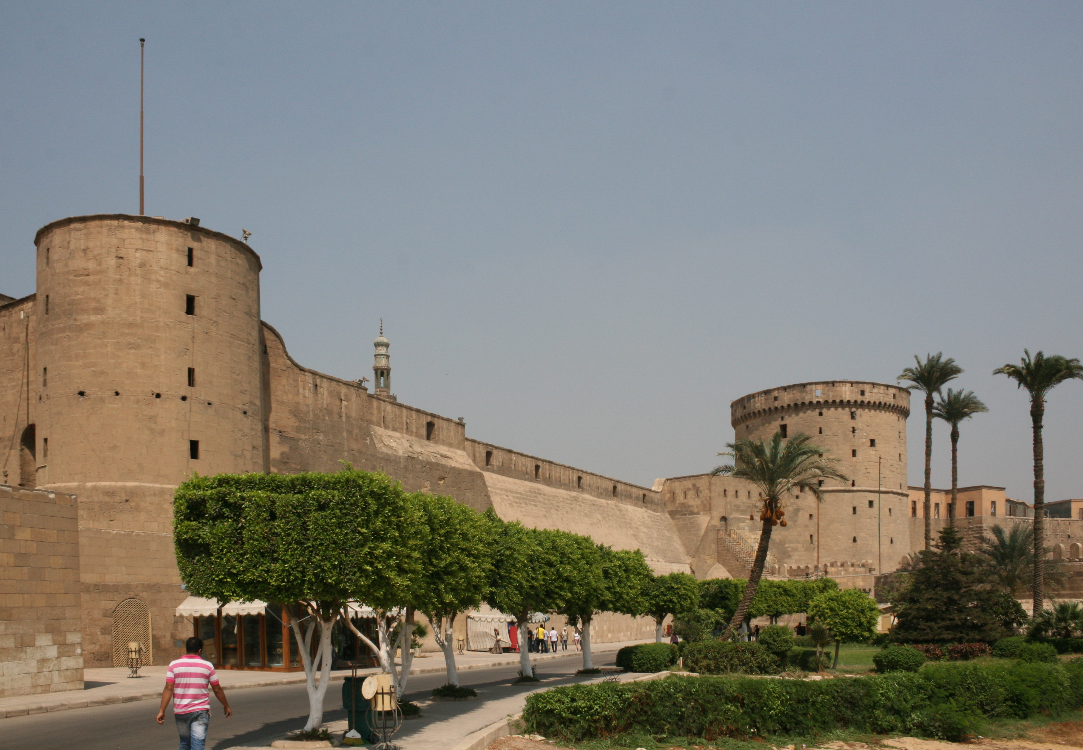 Citadel, Cairo, Egypt